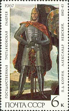 Alexander Nevsky (1942), central part of Northern Ballad triptych by Pavel Korin, on a Soviet stamp.